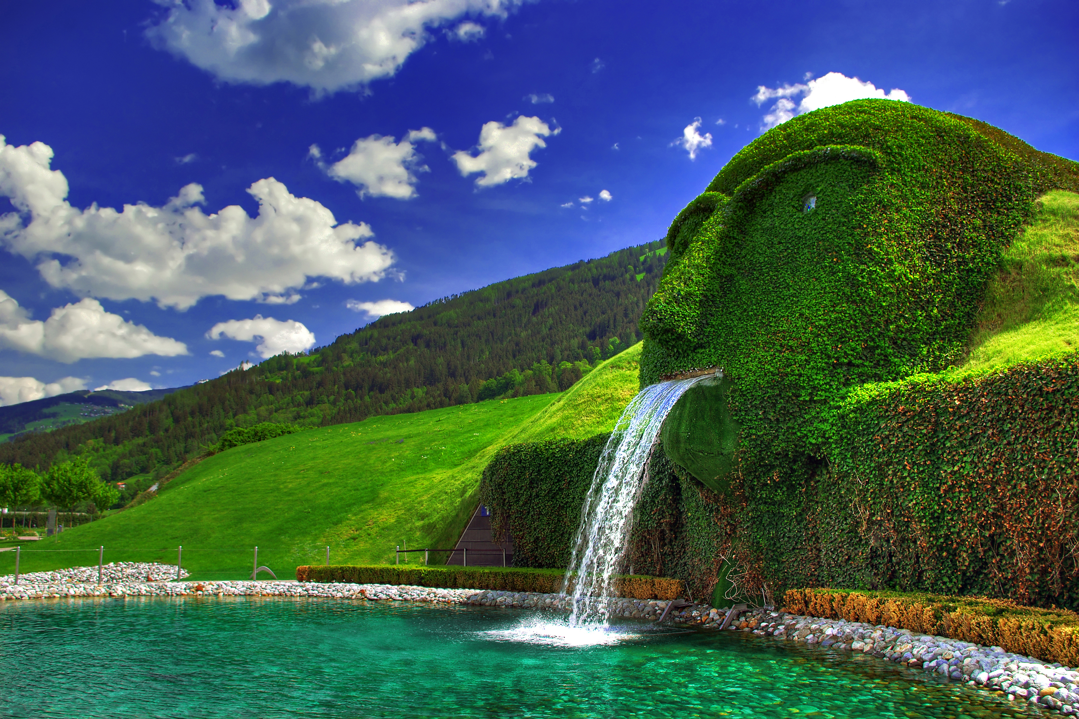 Giant - entrance to the Swarovski Kristallwelten (Crystal Worlds) in Wattens / Austria.